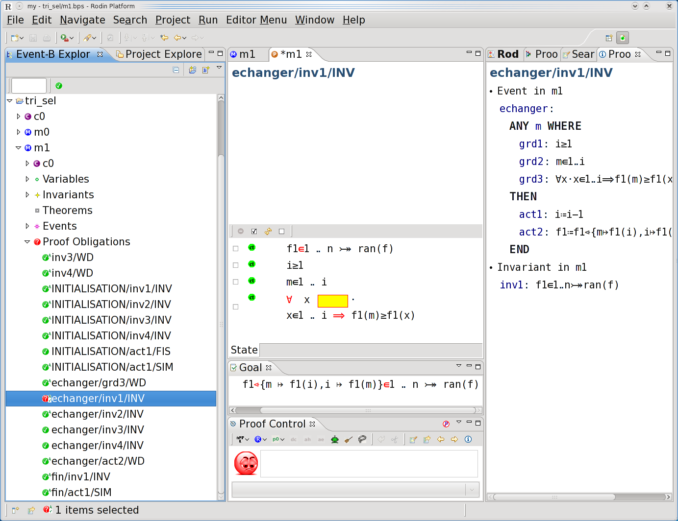 Screen shoot of the Rodin FOSS software